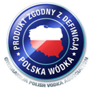 A symbol of a geographical indication Polska Wódka/Polish Vodka.